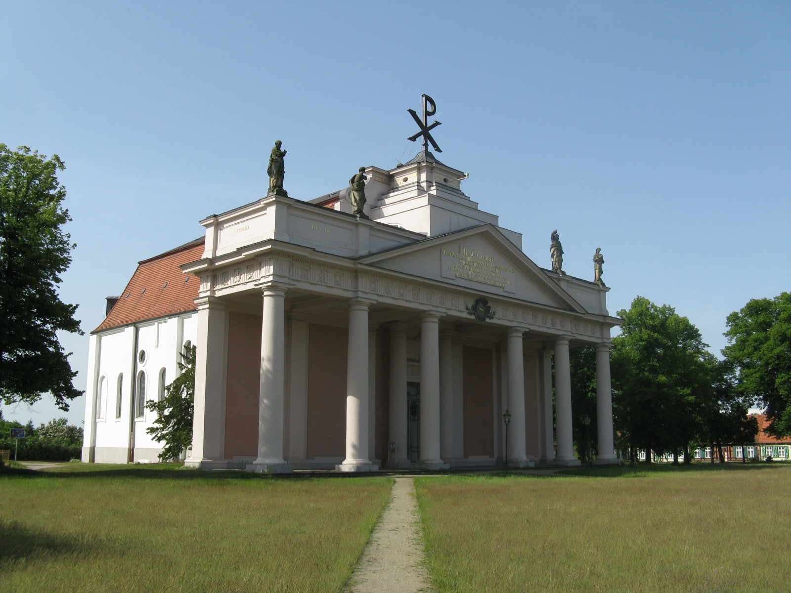 Church in Ludwigslust, Germany